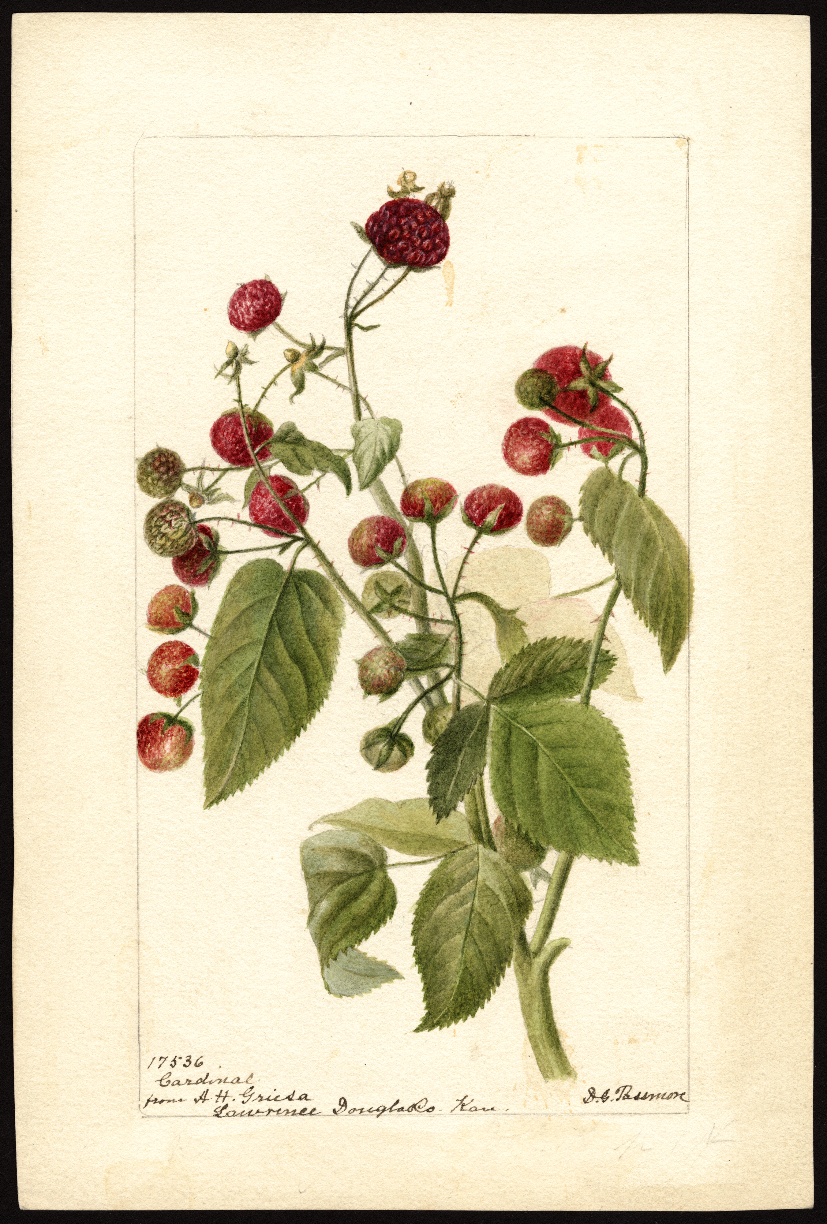 Image of the Cardinal variety of purple raspberries (scientific name: Rubus xneglectus), with this specimen originating in Lawrence, Douglas County, Kansas, United States. Source: U.S. Department of Agriculture Pomological Watercolor Collection. Rare and Special Collections, National Agricultural Library, Beltsville, MD 20705.